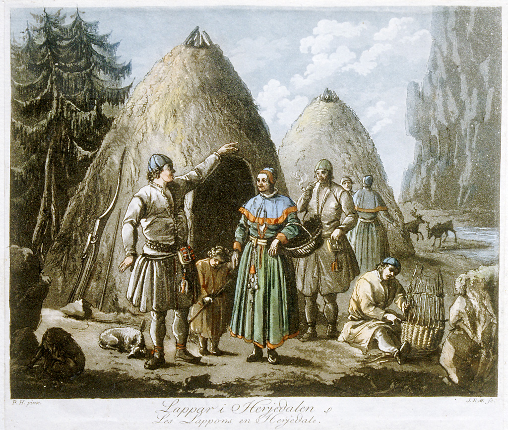 Persistent URL: Read more about the photo database (in english)